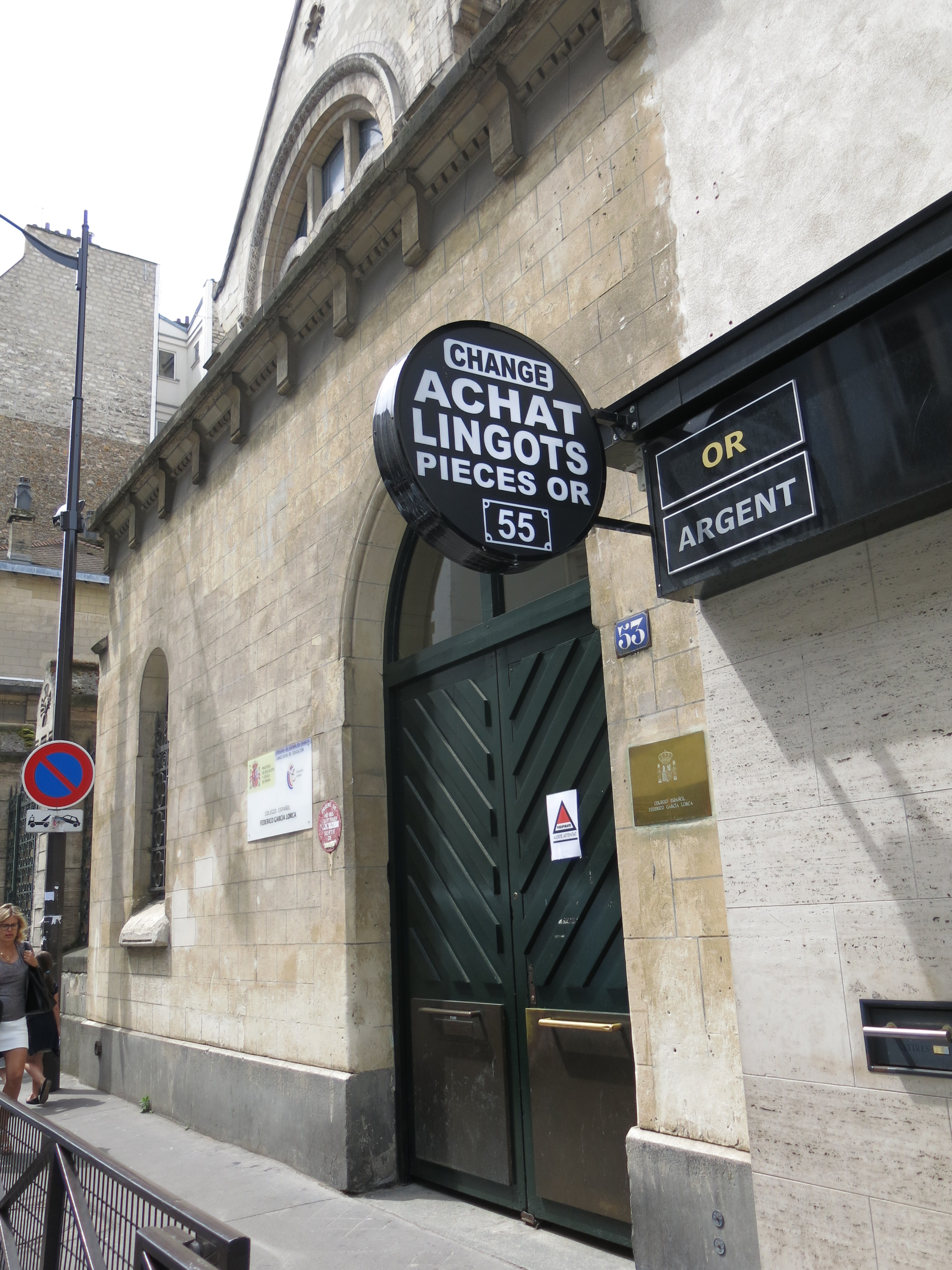 Building 53 rue de la Pompe, Paris 16th arrond. (France). Colegio Español Fecerico García Lorca (Spanish international primary school)